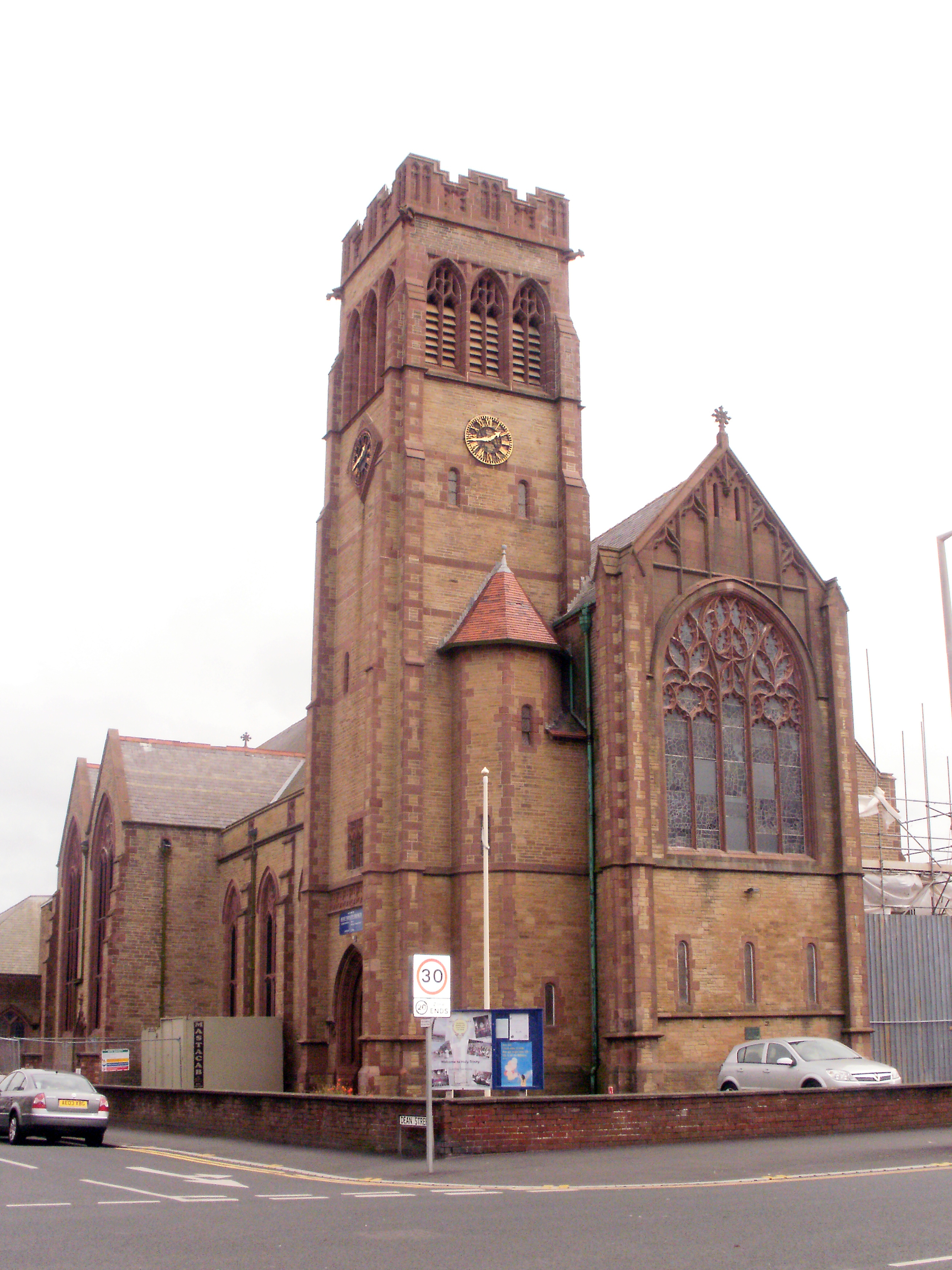 Holy Trinity Church, Dean Street, Blackpool, Lancashire, England